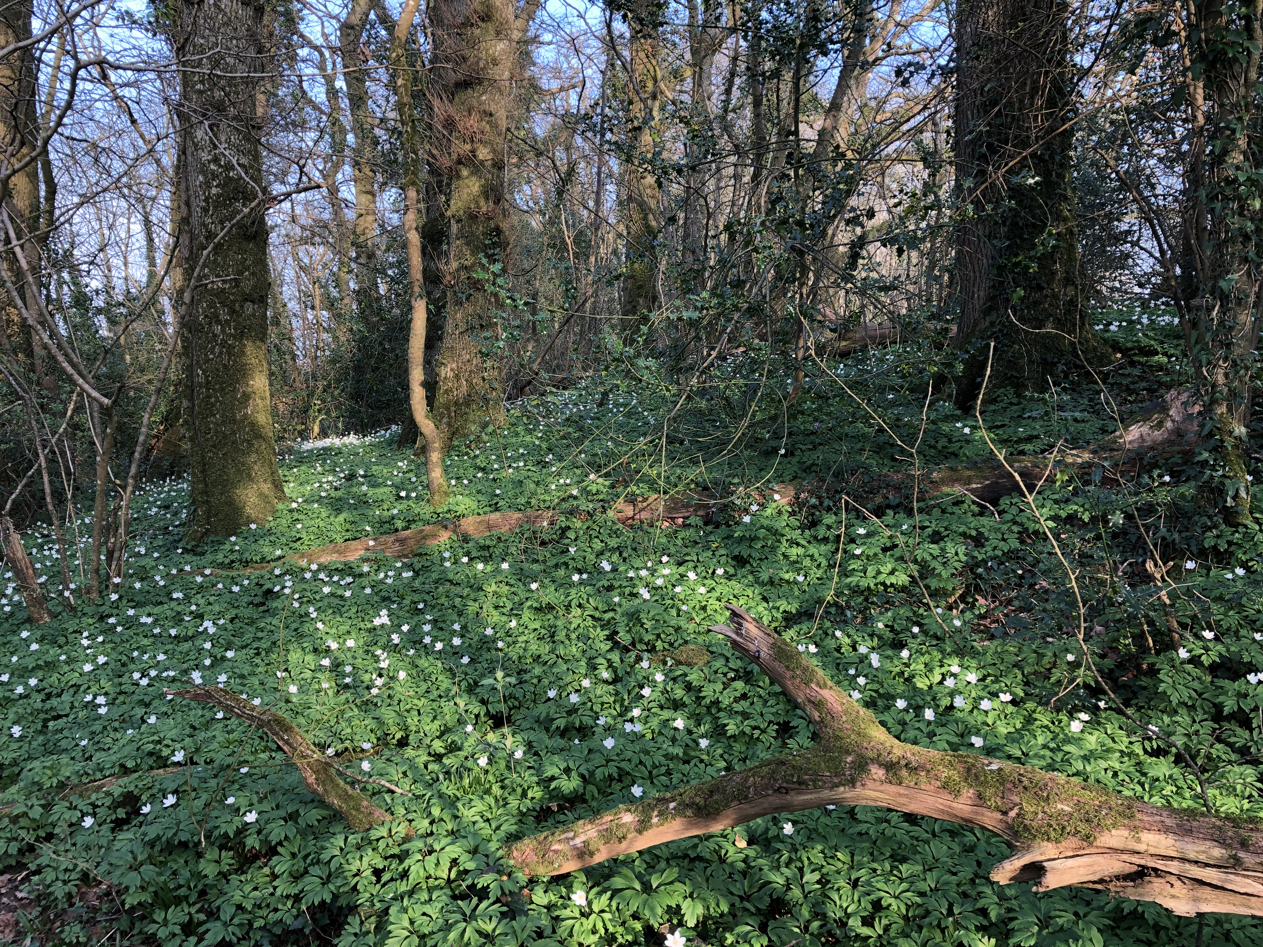 Wood anenomes growing in the overgrowth of Ardan Wood, Westmeath, Ireland (March 2020)